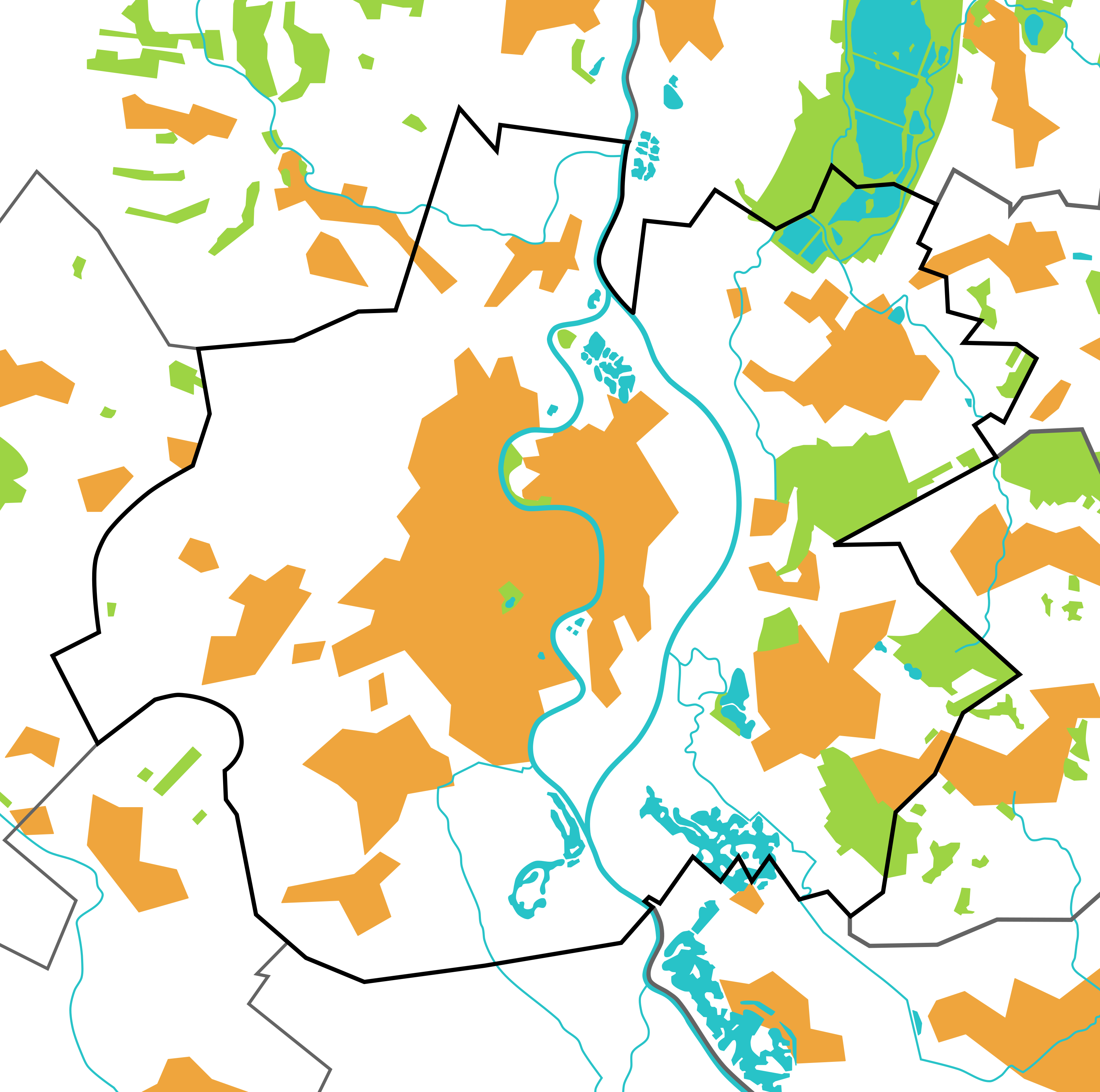 Simplified map of Racibórz